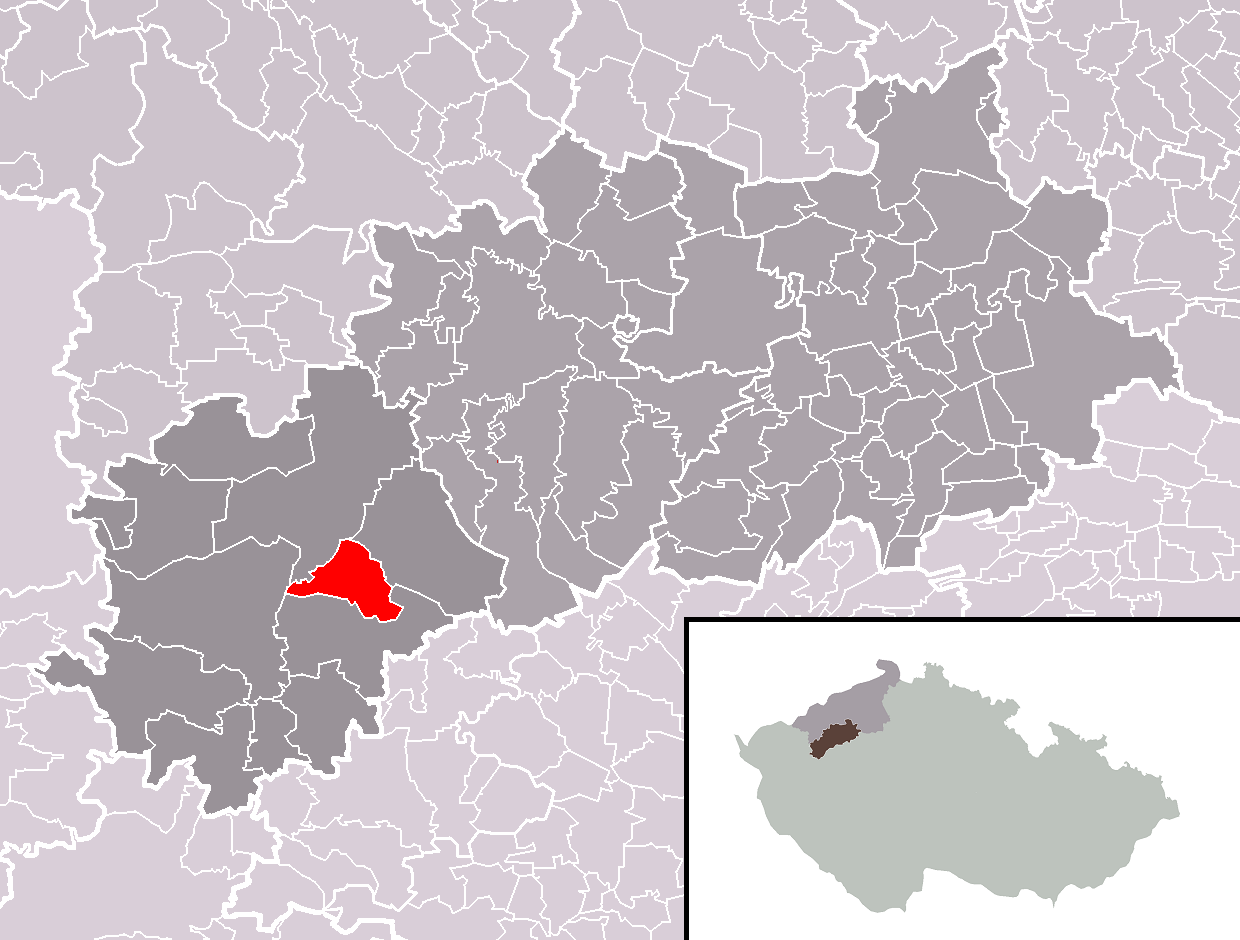 Location of Očihov municipality within Louny District and administrative area of Podbořany as a Municipality with Extended Competence.